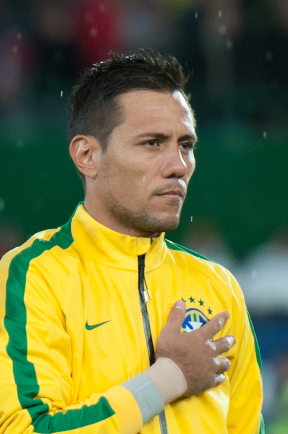 International Friendly Austria - Brazil November 18, 2014: Diego Alves